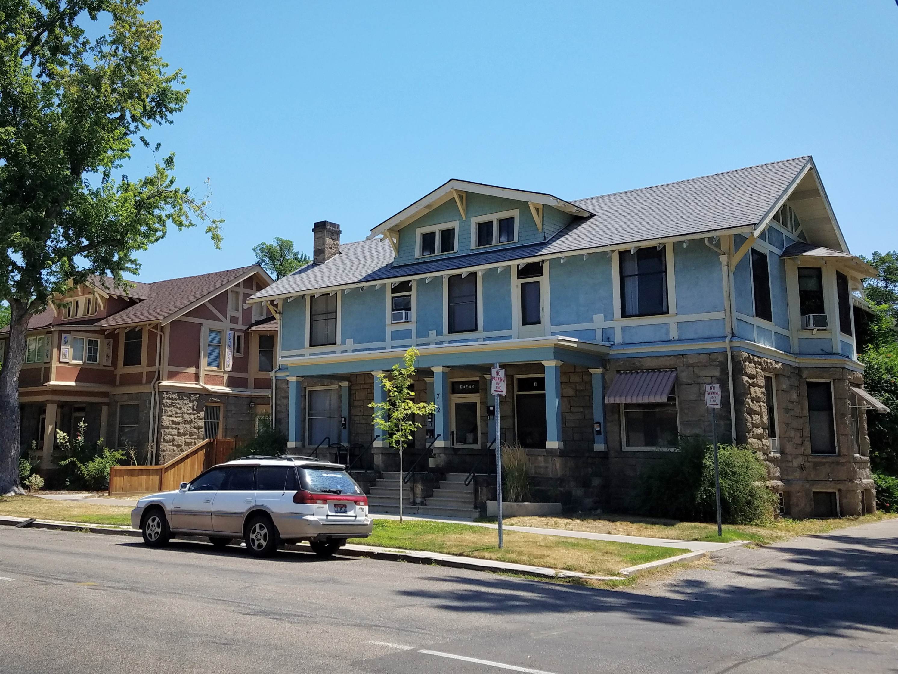 The two Wolters double houses at 712 N. 8th St. (1909) and 720 N. 8th St. (1908) in Boise, Idaho, were designed by Tourtellotte and Hummel and are listed on the National Register of Historic Places. Also the double houses are part of the Fort Street Historic District. Albert Wolters was a mining engineer and attended Turnverein events with Charles Hummel.